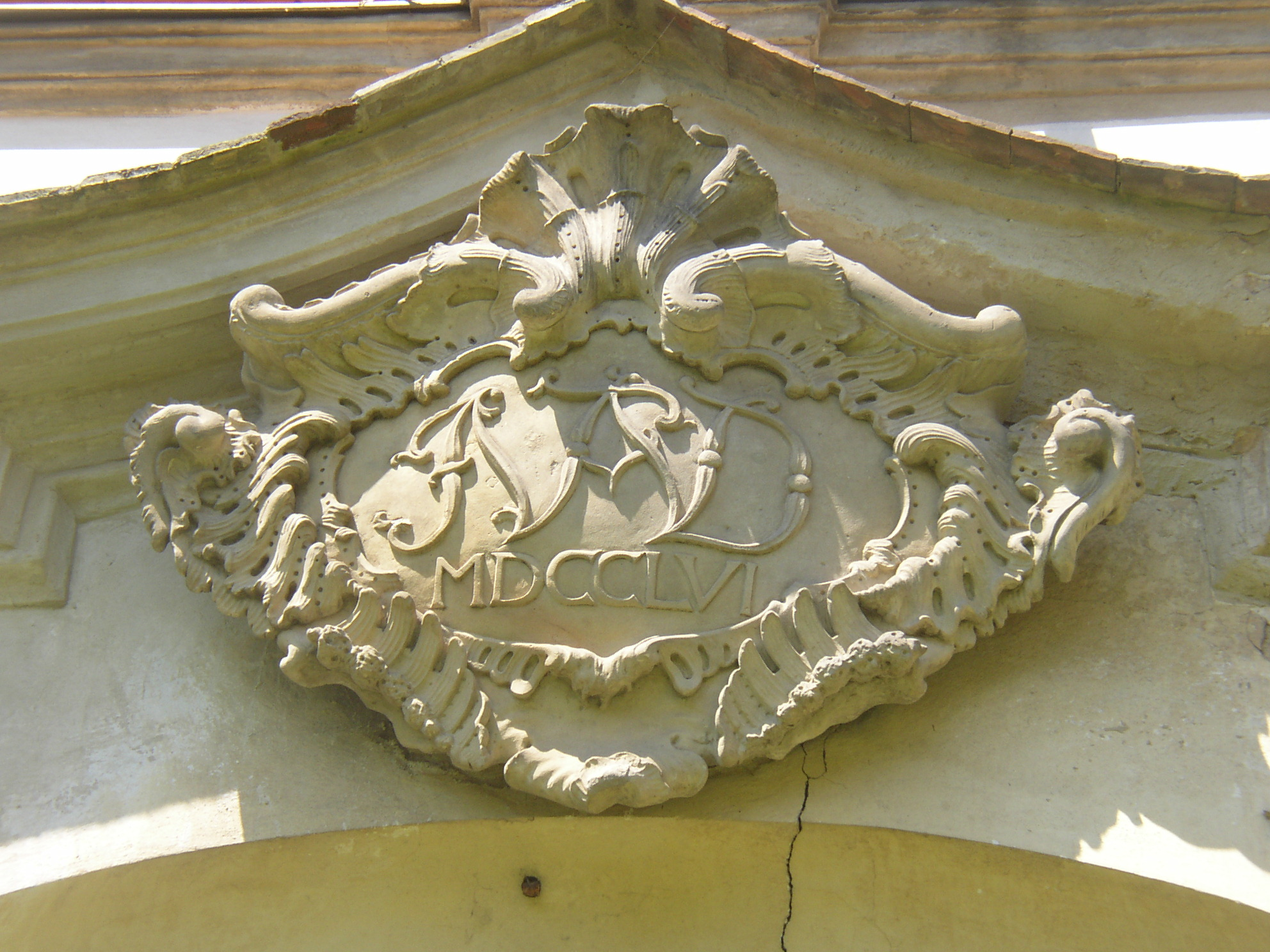 Arcade pavilion from 1756 in garden of female Premonstratensian convent in Doksany, Litoměřice District, Czech Republic. Monogram JWPD (Josephus Winckelburg Præpositus Doxanensis, ie Joseph Winkelburg, Provost of Doksany) with year 1756 in Roman numerals in a cartouche on front of the pavilion.